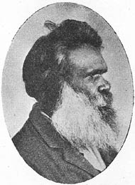 An image of James Unaipon